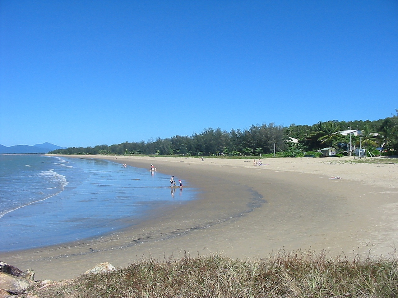 Photographer: user riftreef [dead link] Subject/Location: Yorkeys Knob Beach, Cairns, Queensland, Australia If used: Attribute and link - thanks